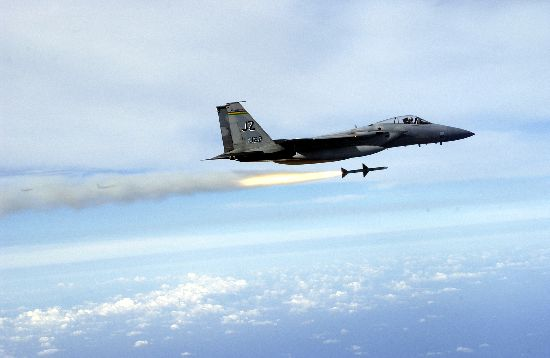 A pilot from the 122nd Fighter Squadron, New Orleans, Louisiana Air National Guard, fires an AIM-7 Sparrow missile from an F-15C Eagle during Combat Archer hosted by the 83rd Fighter Weapons Squadron at Tyndall Air Force Base, Florida. Also known as Air-to-Air Weapons System Evaluation Program (WSEP), Combat Archer allows units to fire live missiles at both sub-scale and full-scale drones. Every unit is evaluated on their performance from maintenance preparation of both the aircraft and weapons upload to the pilot's ability to effectively employ the weapon against a specified target. (U.S. Air Force photo/Tech. Sgt. Michael Ammons) RELEASED (VIRIN 020515-F-7709A-001)